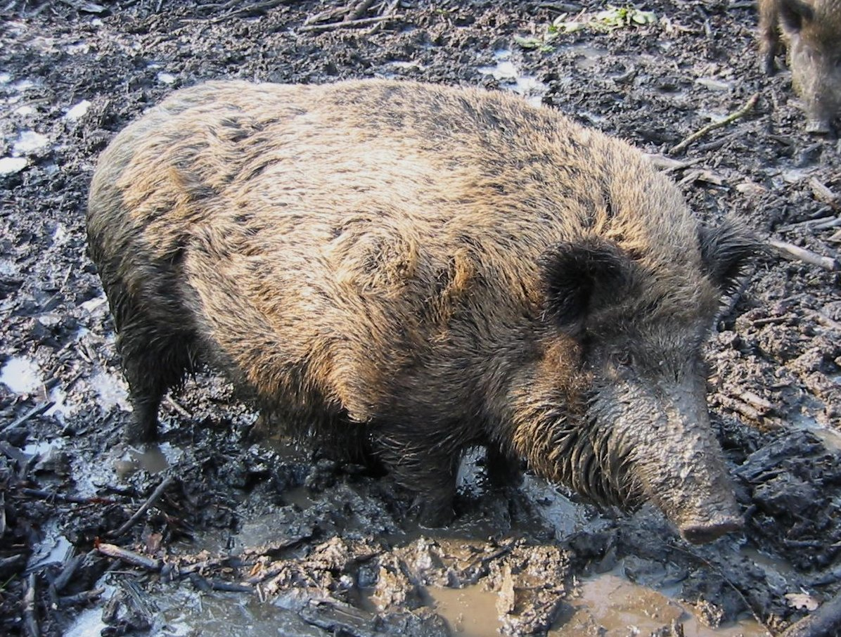 Sus scrofa